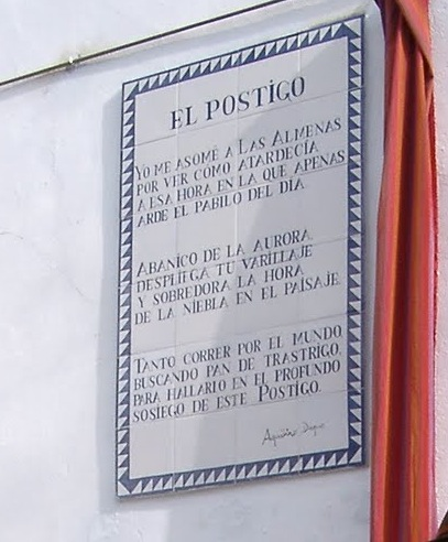 Azulejo en Zufre